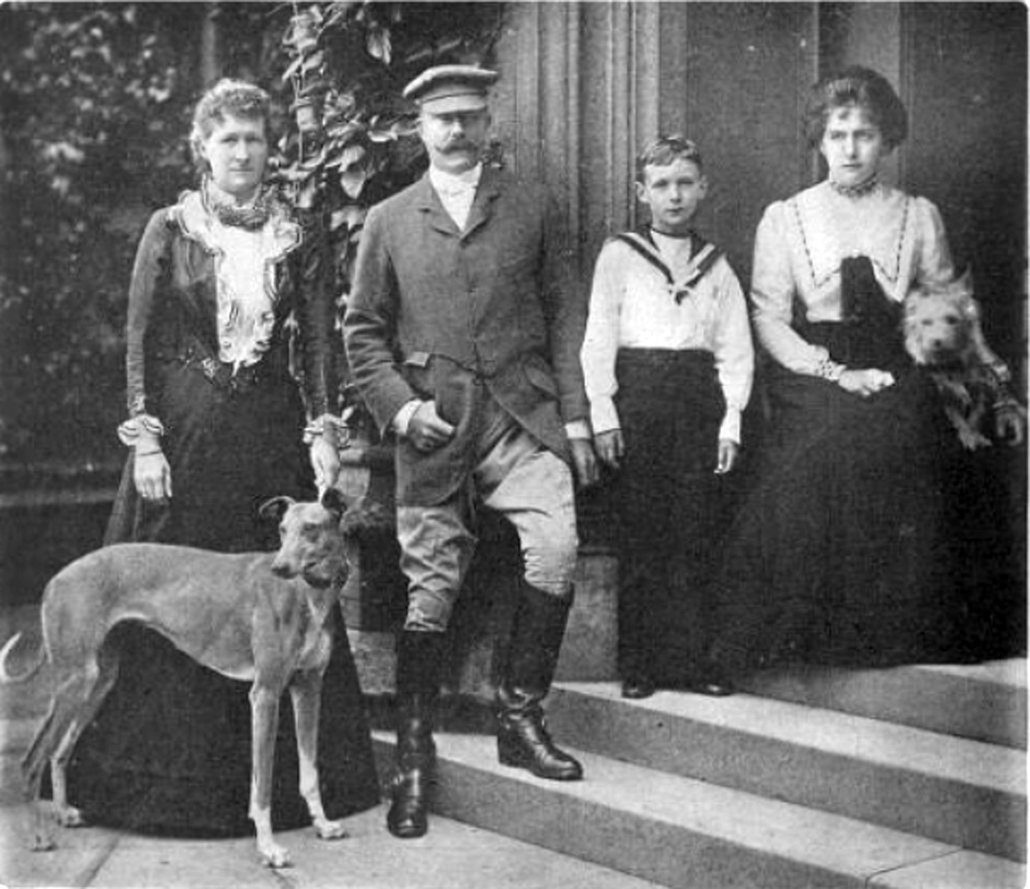 Family of Major General Charles Compton William Cavendish in 1901